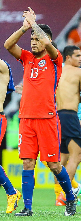 Chile VS. Australia 1 - 1, 25 June 2017